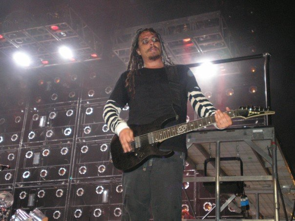 James "Munky" Shaffer, July 2007, Family Values Tour, Toronto Ontario Canada, Molson Amphitheatre